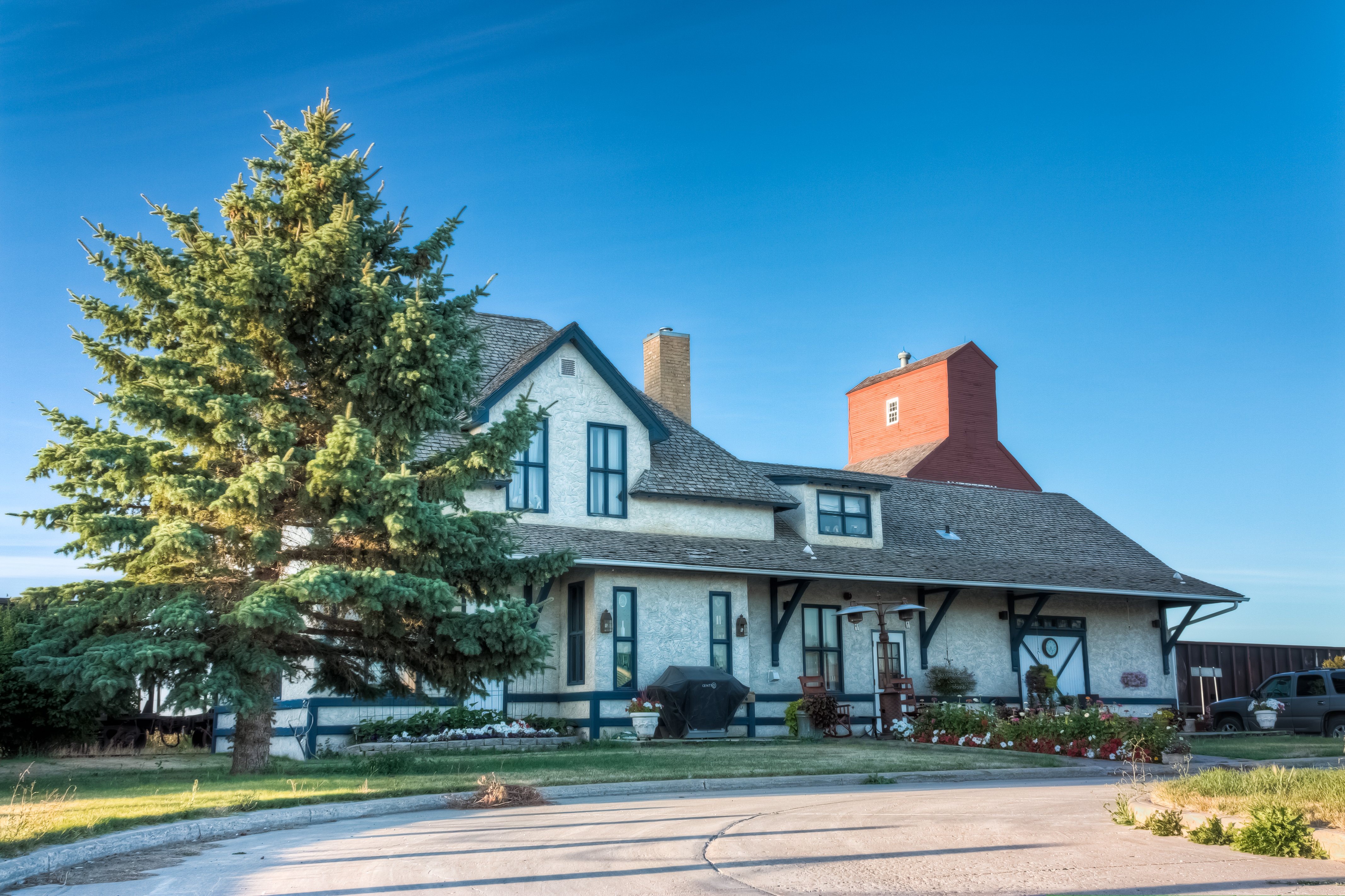 The CNR Station Building is a Municipal Heritage Property located on 701 Main St N in Gravelbourg, SK. Built in AD 1913, it is a two-storey building made of a wooden frame and clad in stucco, with large overhanging eaves and a hipped and gable roof.